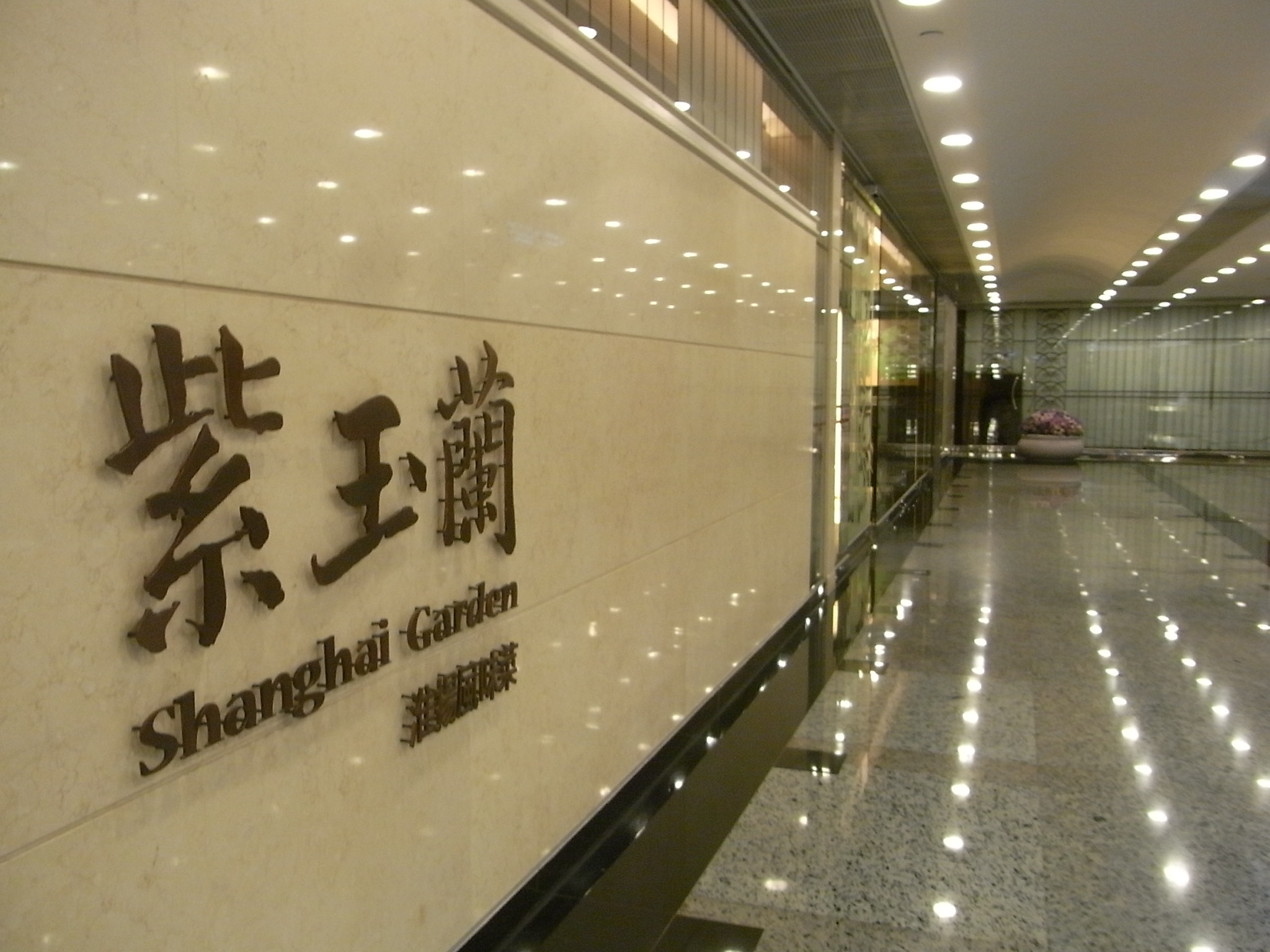 香港島金鐘 和記大廈 紫玉蘭